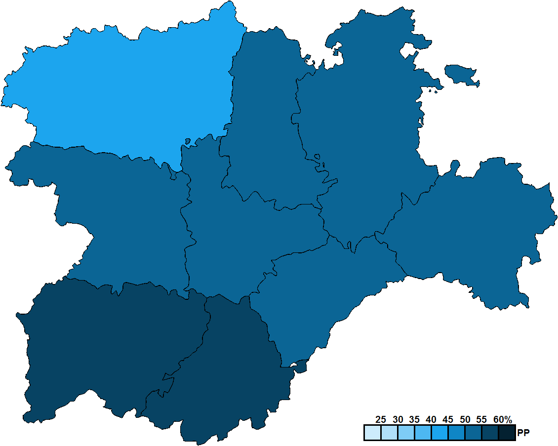 Provincial results for the 2011 Castilian-Leonese regional election.